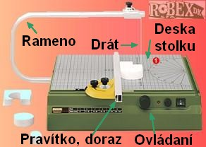 Subscribe of heat cutting machine with cutting wire for cutting styrofoam